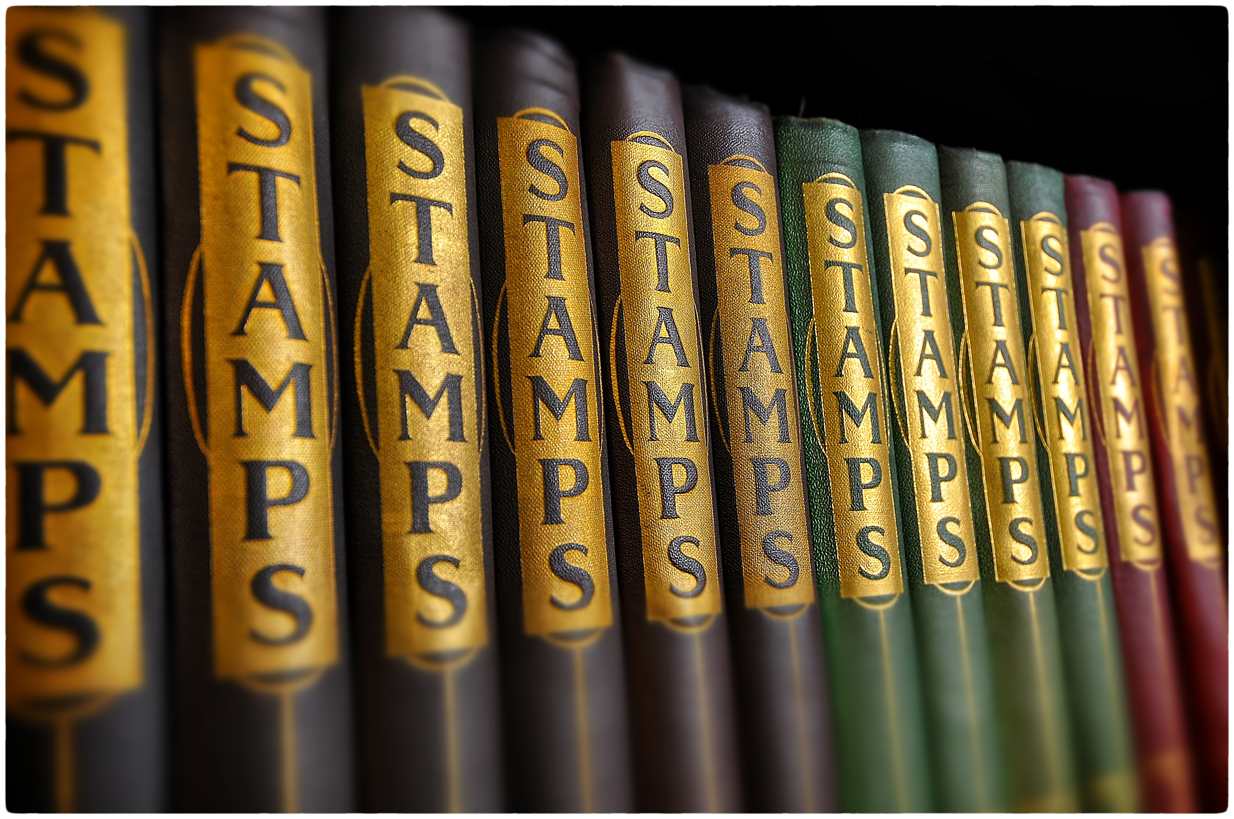 Some of the holdings at the Collectors Club of Chicago library.